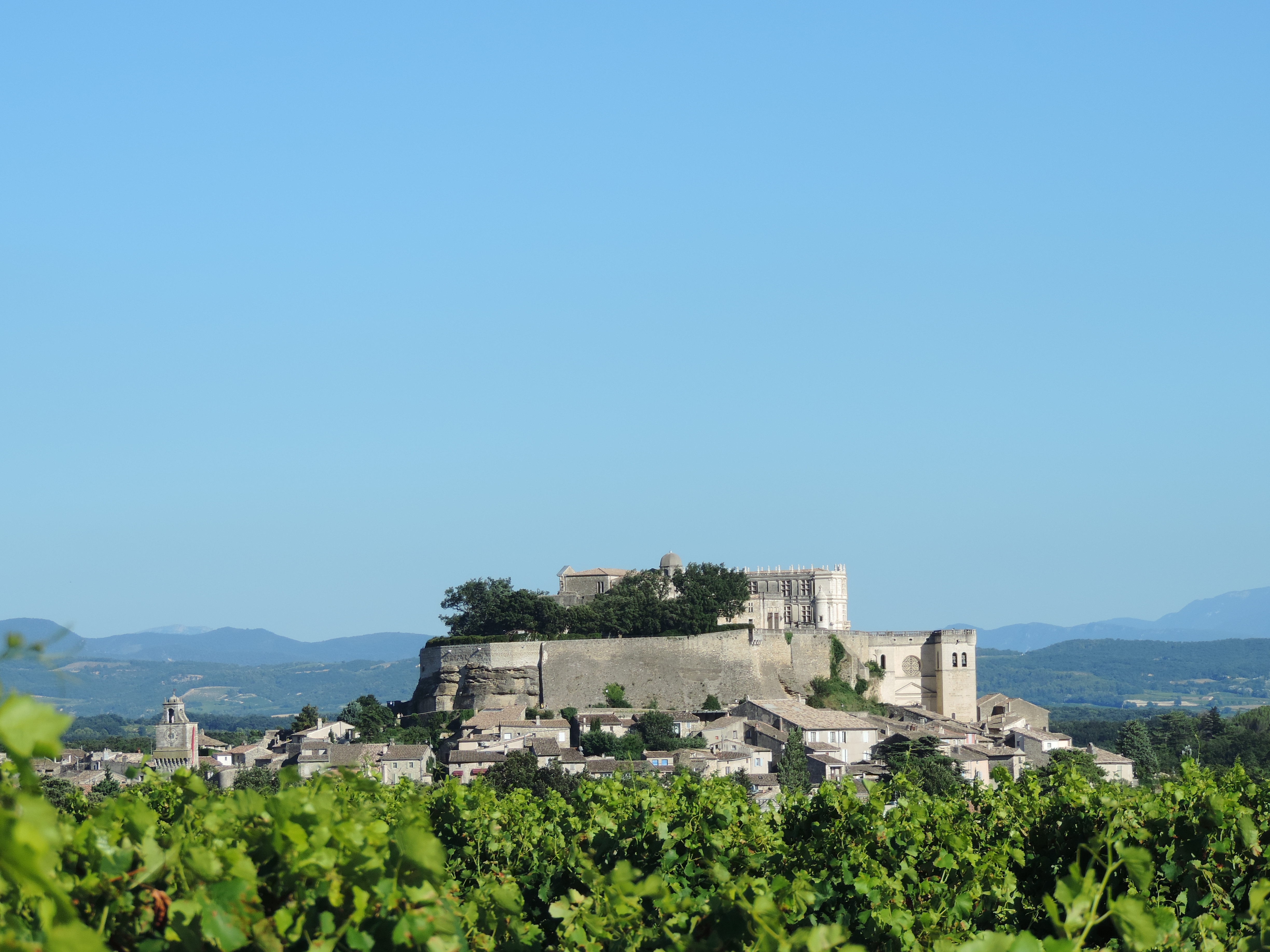 France Provence Grignan castle château